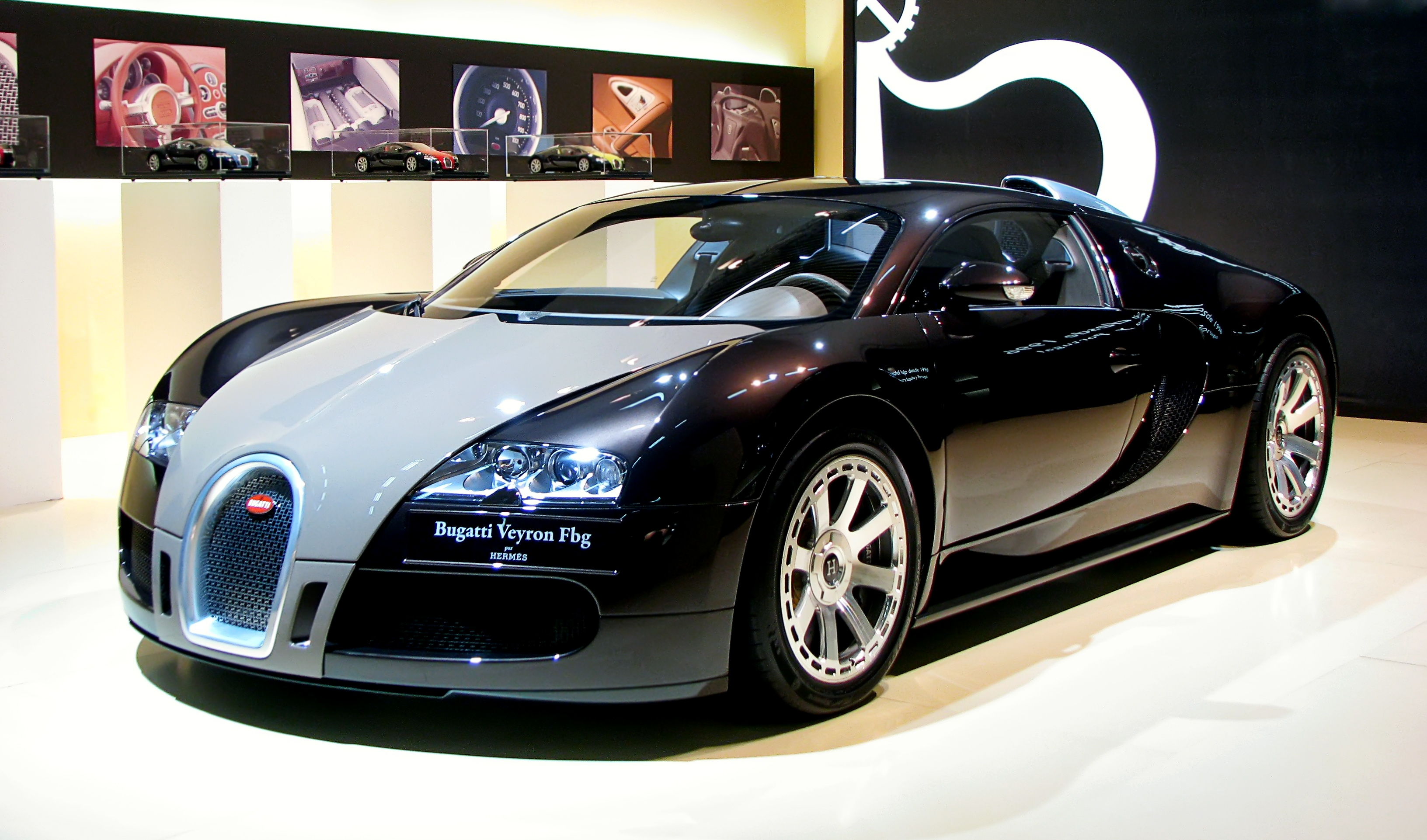 Bugatti Veyron Fbg par Hermès edition at the 2009 Barcelona motorshow